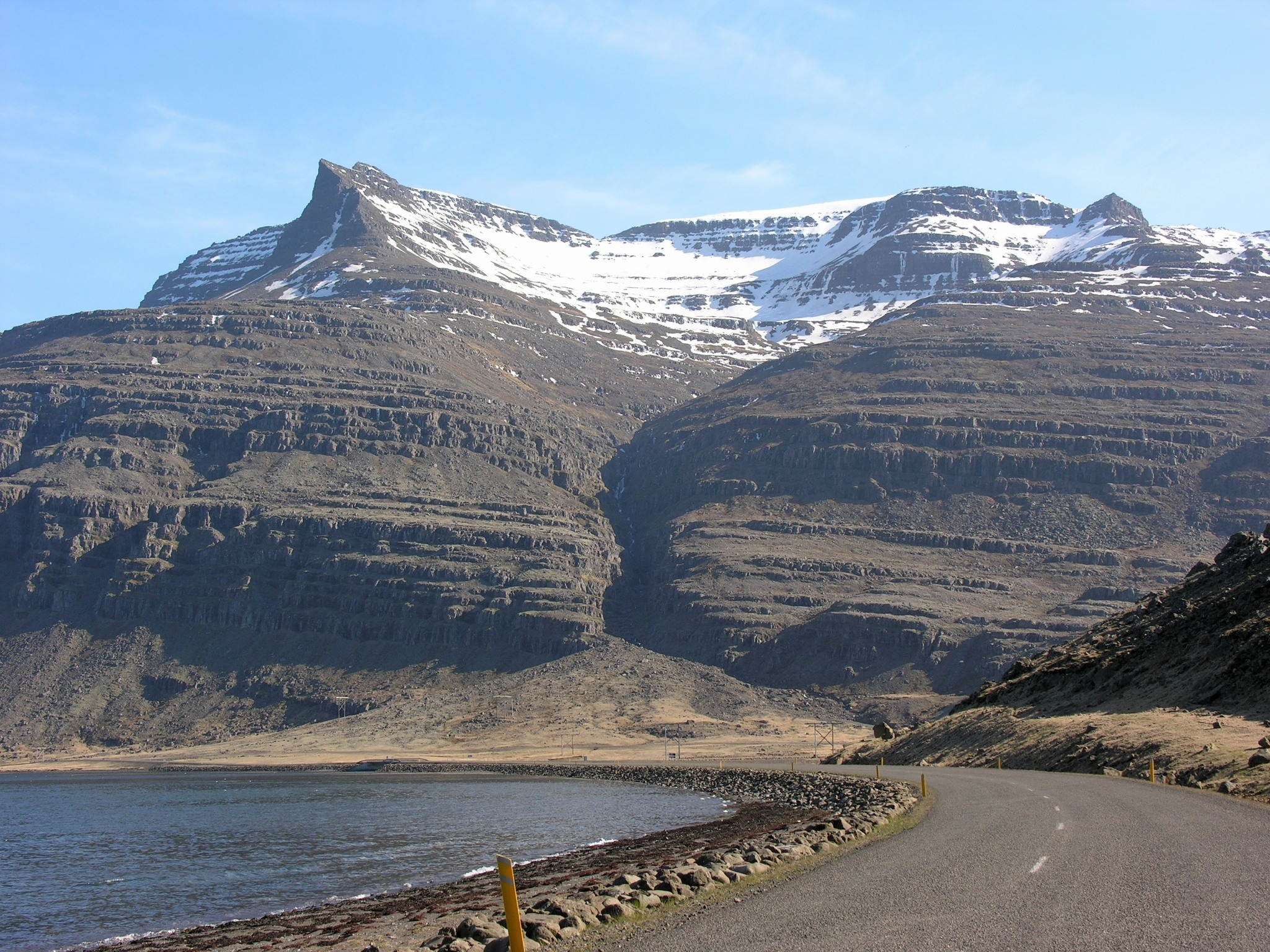 Iceland, views along road Road 1 in Iceland (Hringvegur). Picture is geocoded manually; if someone can contribute to the accuracy, please do so.